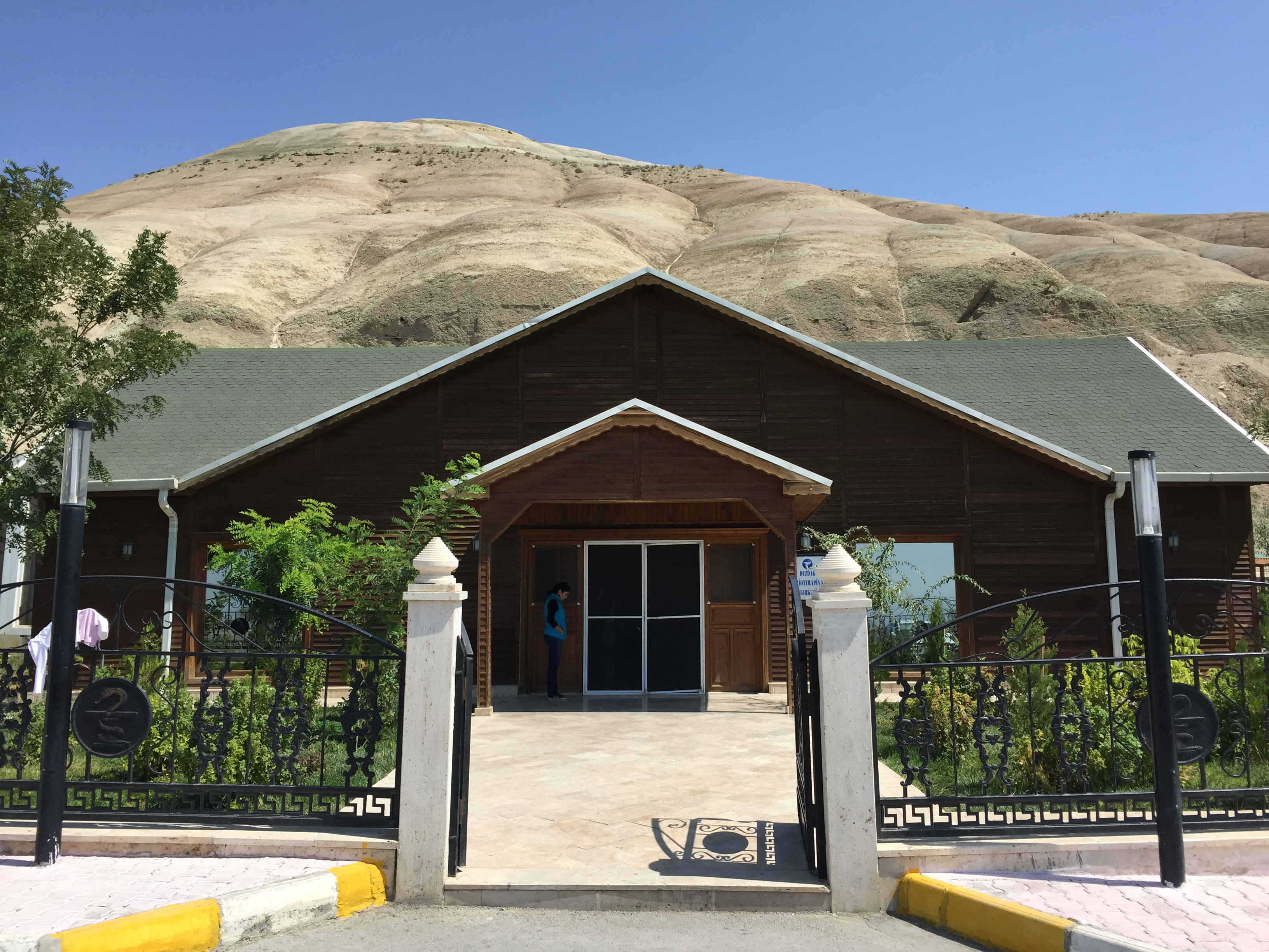 Duzdağ / Duzdag, in Naxçıvan is salt mountain which also has physiotherapy center inside it.